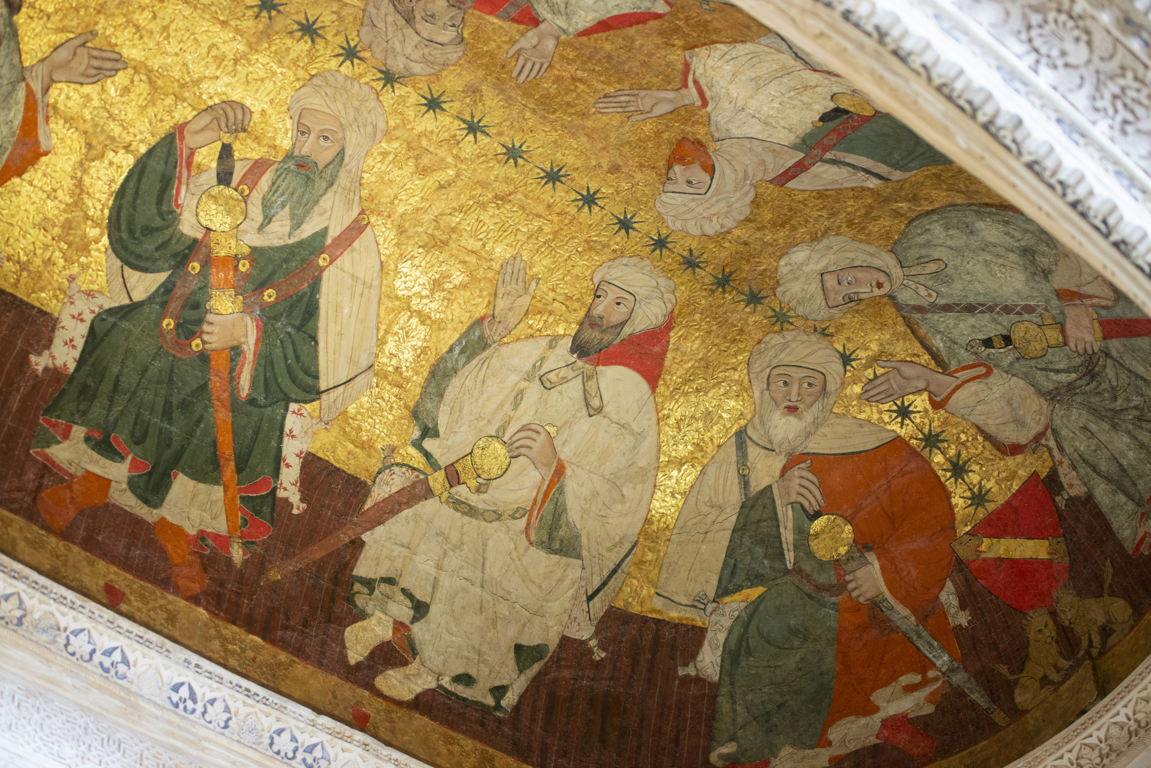 Fotos: J.M. Grimaldi / Junta de Andalucía Painting in the ceiling of the Hall of Kings (Alhambra), Granada, Spain.